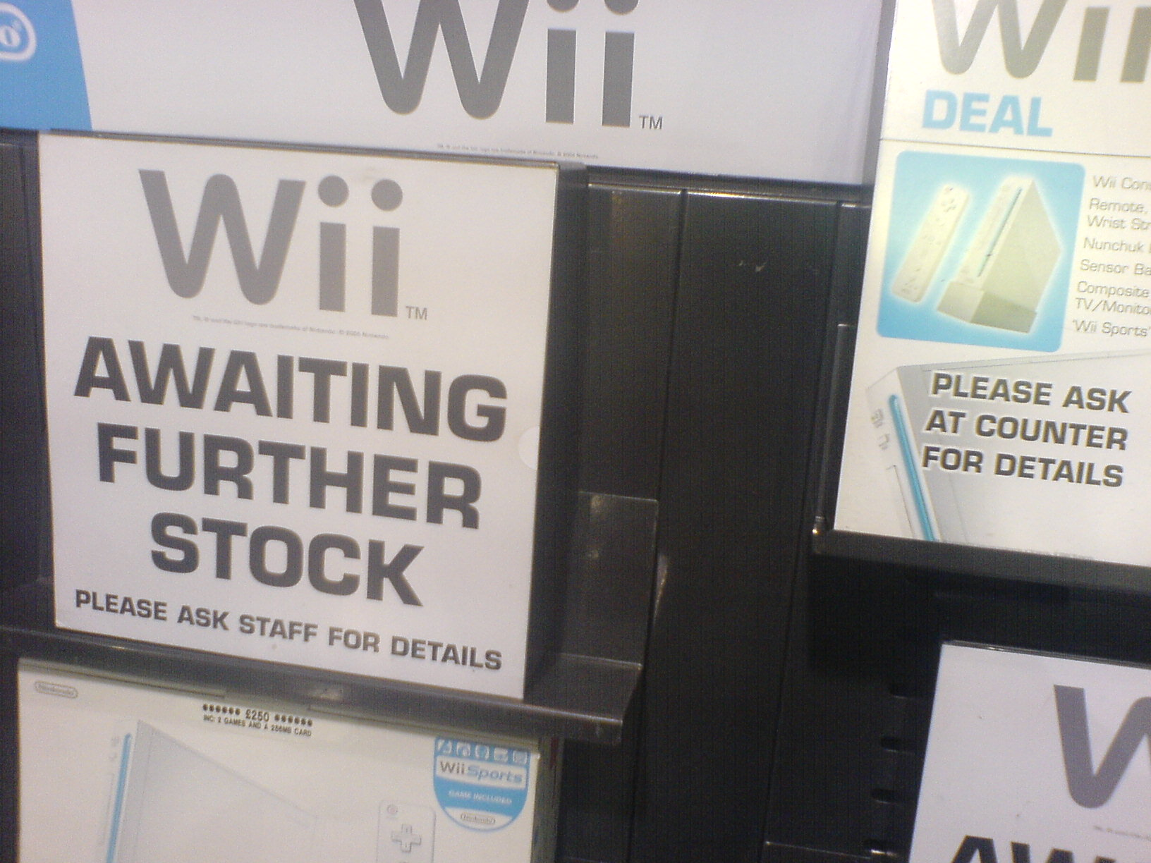 The HMV on Oxford Street, which was the UK's Wii launch store, has had this sign up since December 8th.